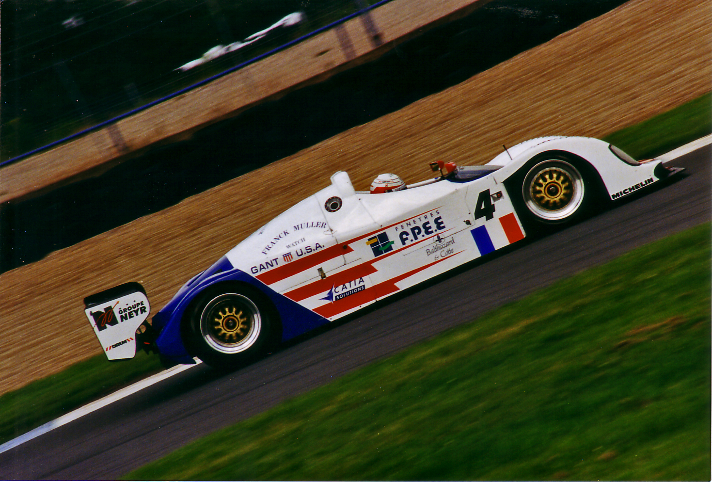 Courage Competition's Courage C36-Porsche at Donington Park